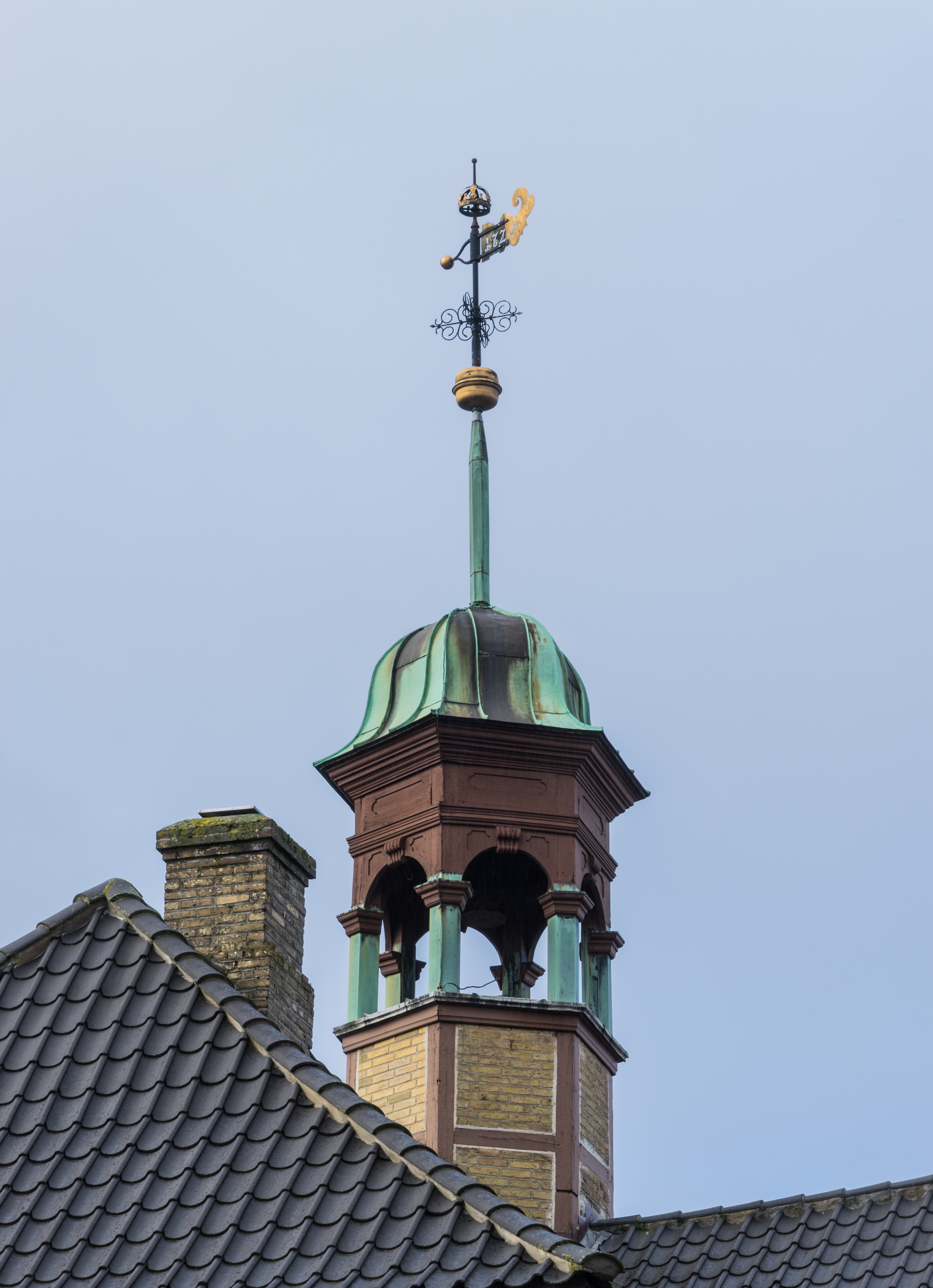 The belfry of the Skovgaard Museet (art museum, former town Hall) of Viborg, Denmark.